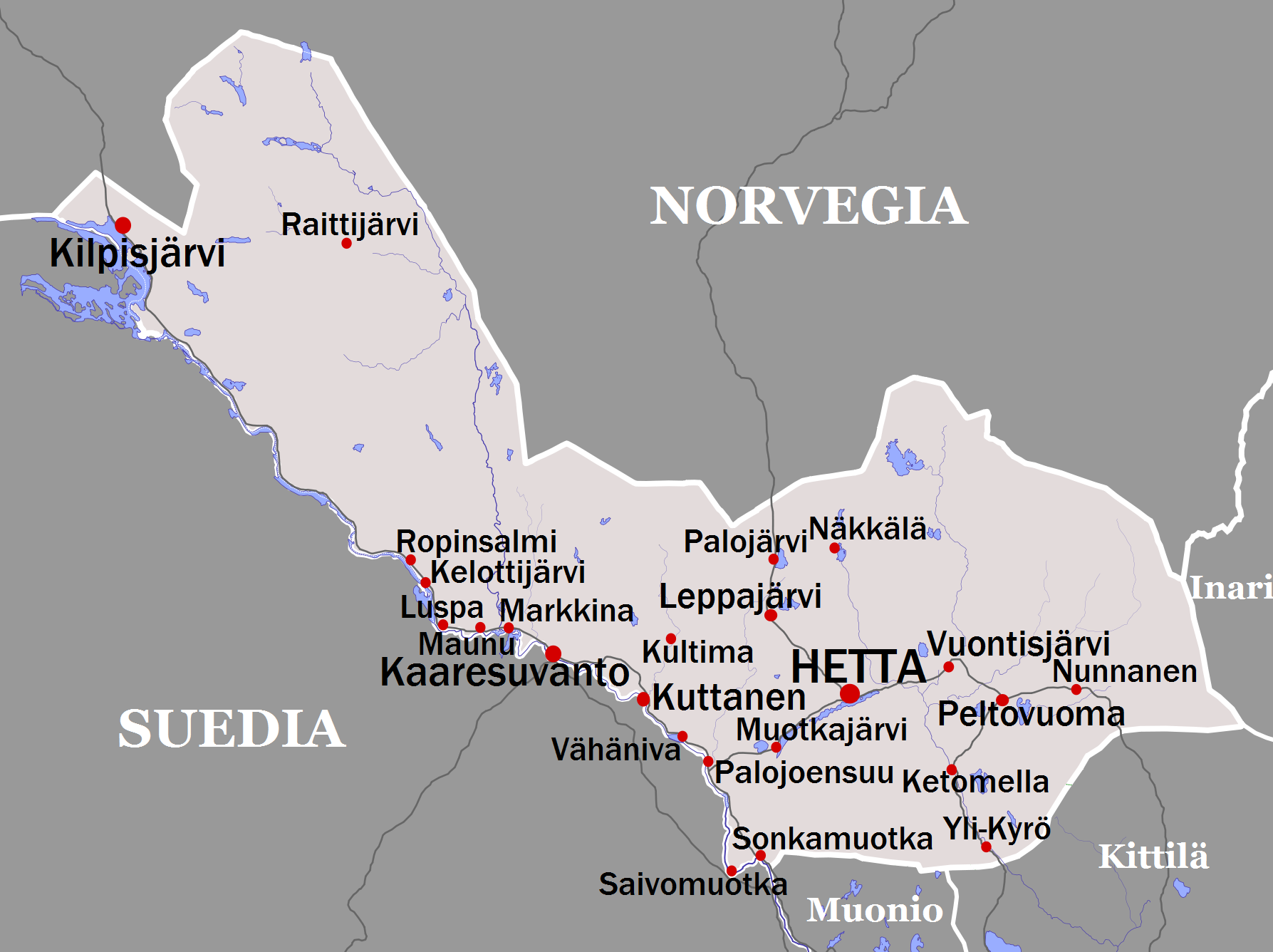 Villages of Enontekiö